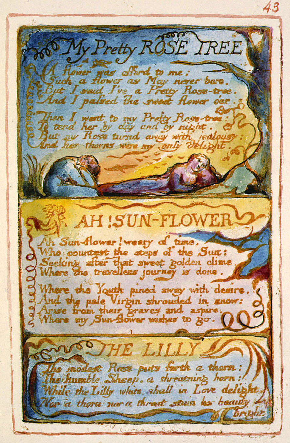 Songs of Innocence and of Experience, copy AA, 1826 (The Fitzwilliam Museum) object 43 My Pretty Rose Tree